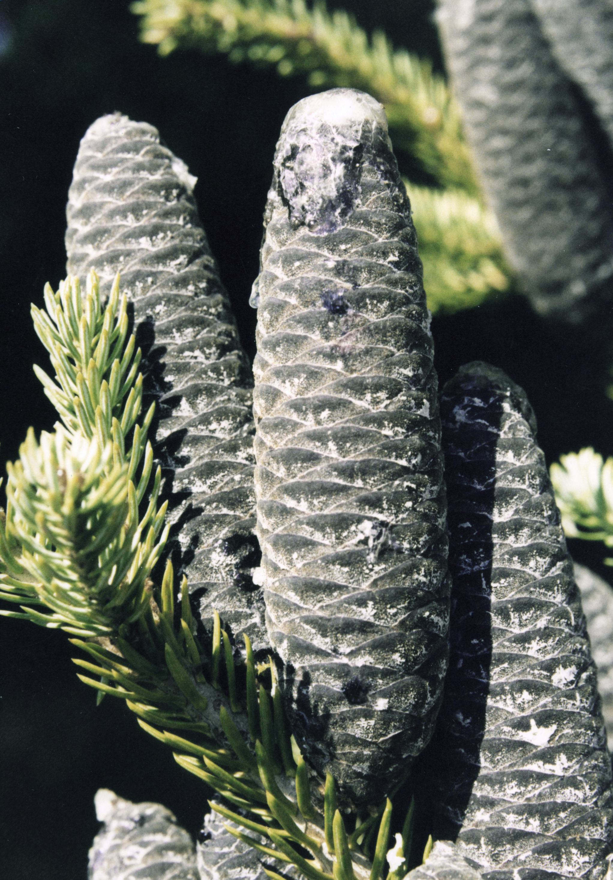 Cones of Abies balsamea